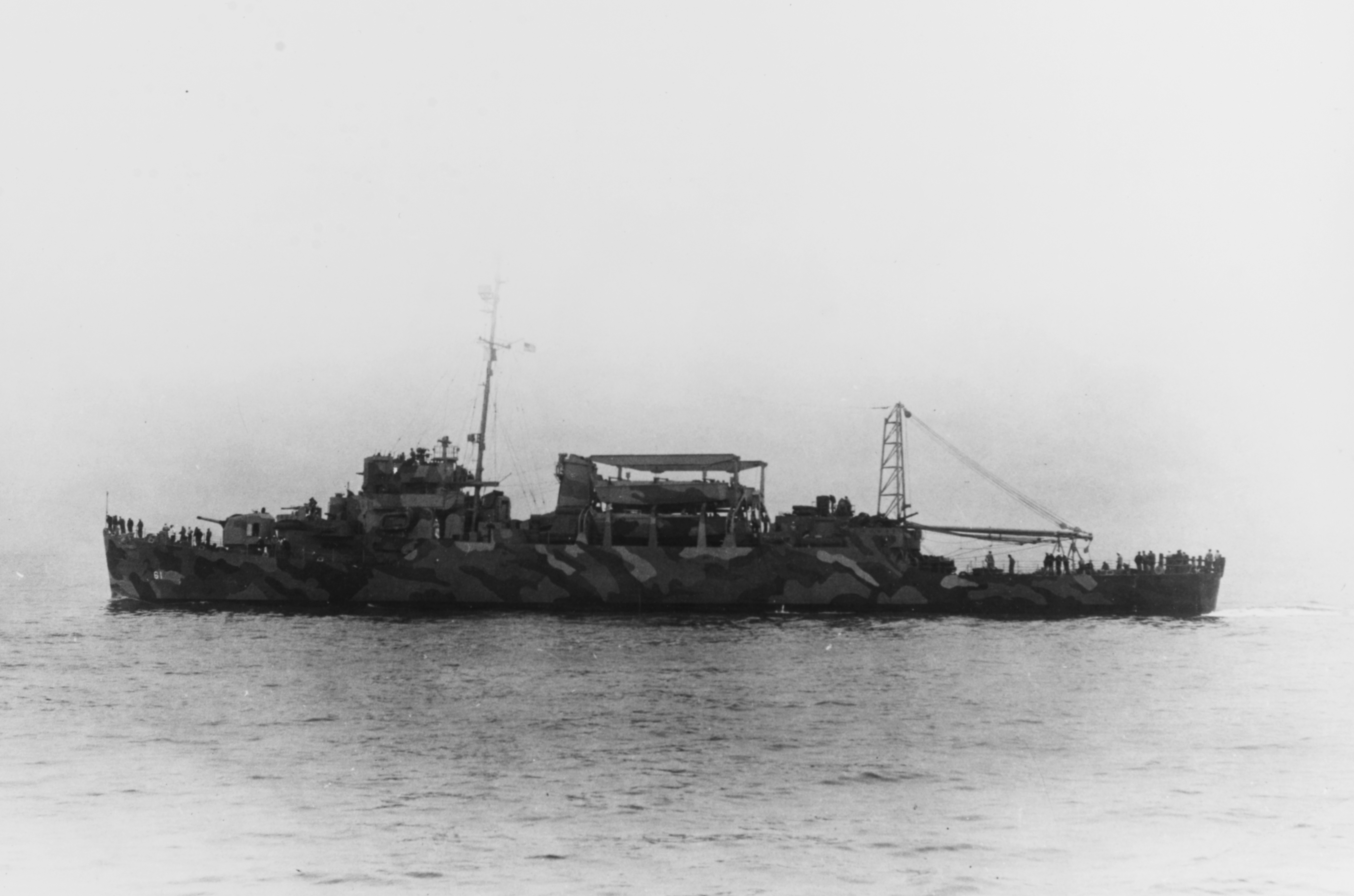 The U.S. Navy high-speed transport USS Kephart (APD-61) underway off the New York Naval Shipyard (USA) on 20 September 1944.